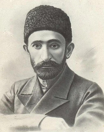 Mirza Alakbar Sabir